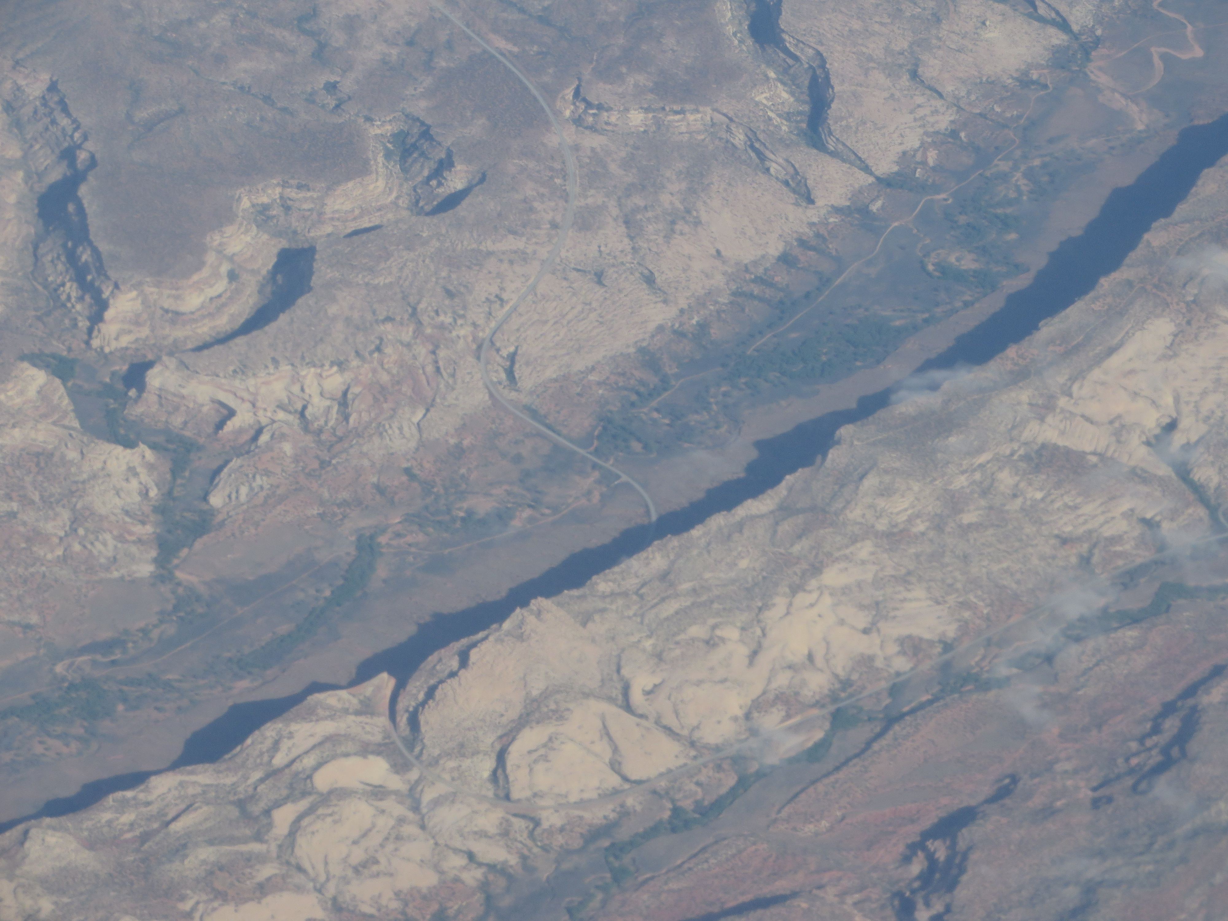 Comb Ridge is a linear north to south-trending monocline nearly 80 miles long in southeast Utah and northeast Arizona. Its northern end merges with the Abajo Mountains some eleven miles west of Blanding. It extends essentially due south for 45 km (28 mi) to the San Juan River. South of the San Juan the ridge turns to the southwest and is more subdued in expression as it extends for an additional 67 km (42 mi) to Laguna Creek 9 km (5.6 mi) east of Kayenta, Arizona. It was designated a National Natural Landmark in 1976 as the only North American location of tritylodont fossils. The geologic formations involved in the east dipping strata of the fold include the Jurassic aged Navajo Sandstone, Kayenta Formation, Wingate Sandstone, Chinle Formation, Triassic Moenkopi Formation and Permian Organ Rock Formation. The structure is the surface expression of a deep fault along the east margin of the Monument Uplift. Numerous cliff dwellings are found along the ridge.